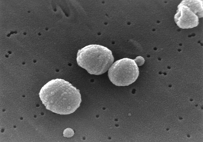 Scanning Electron Micrograph of Streptococcus pneumoniae. Pneumococcus, Streptococci